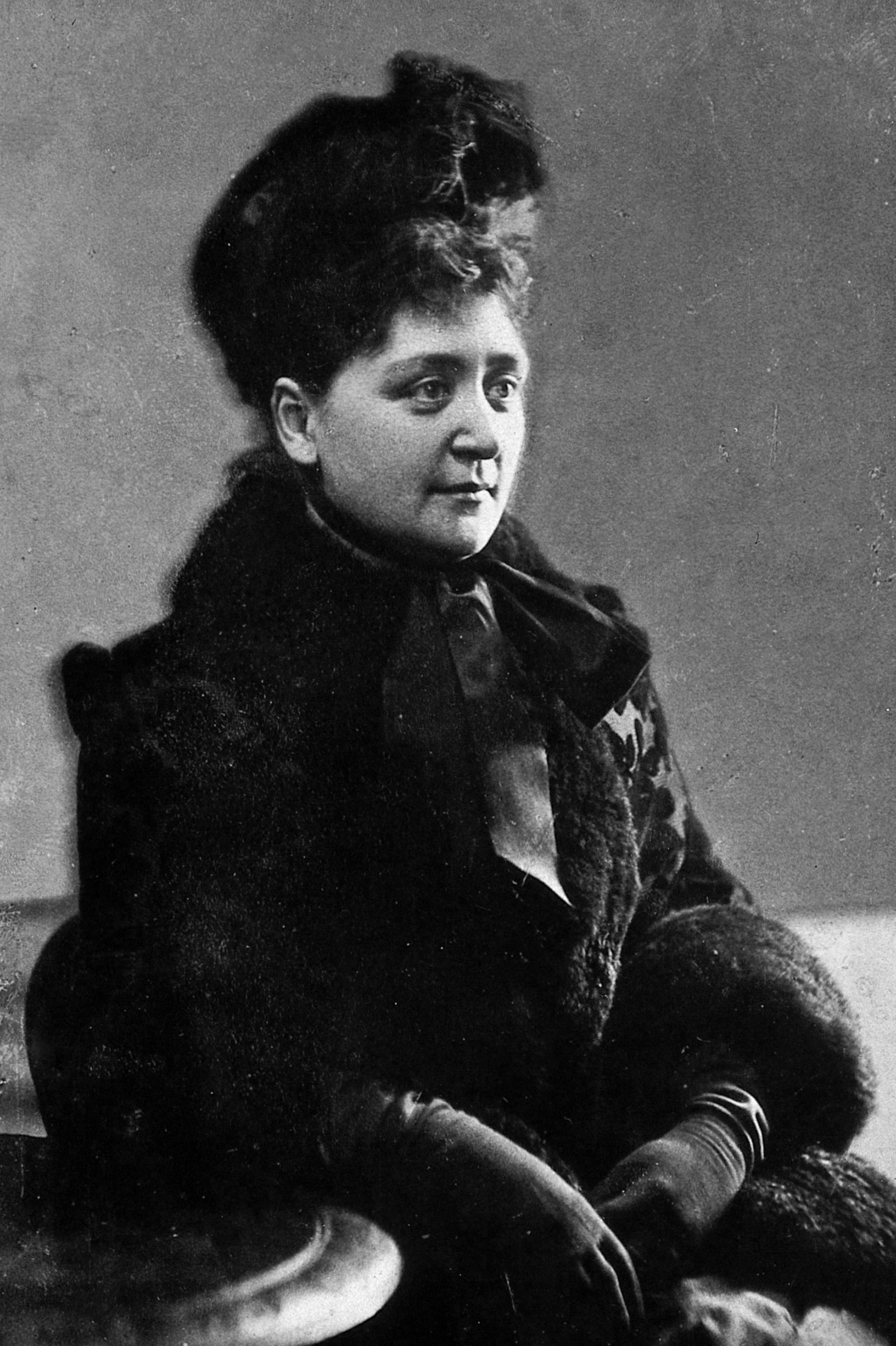 May French Sheldon